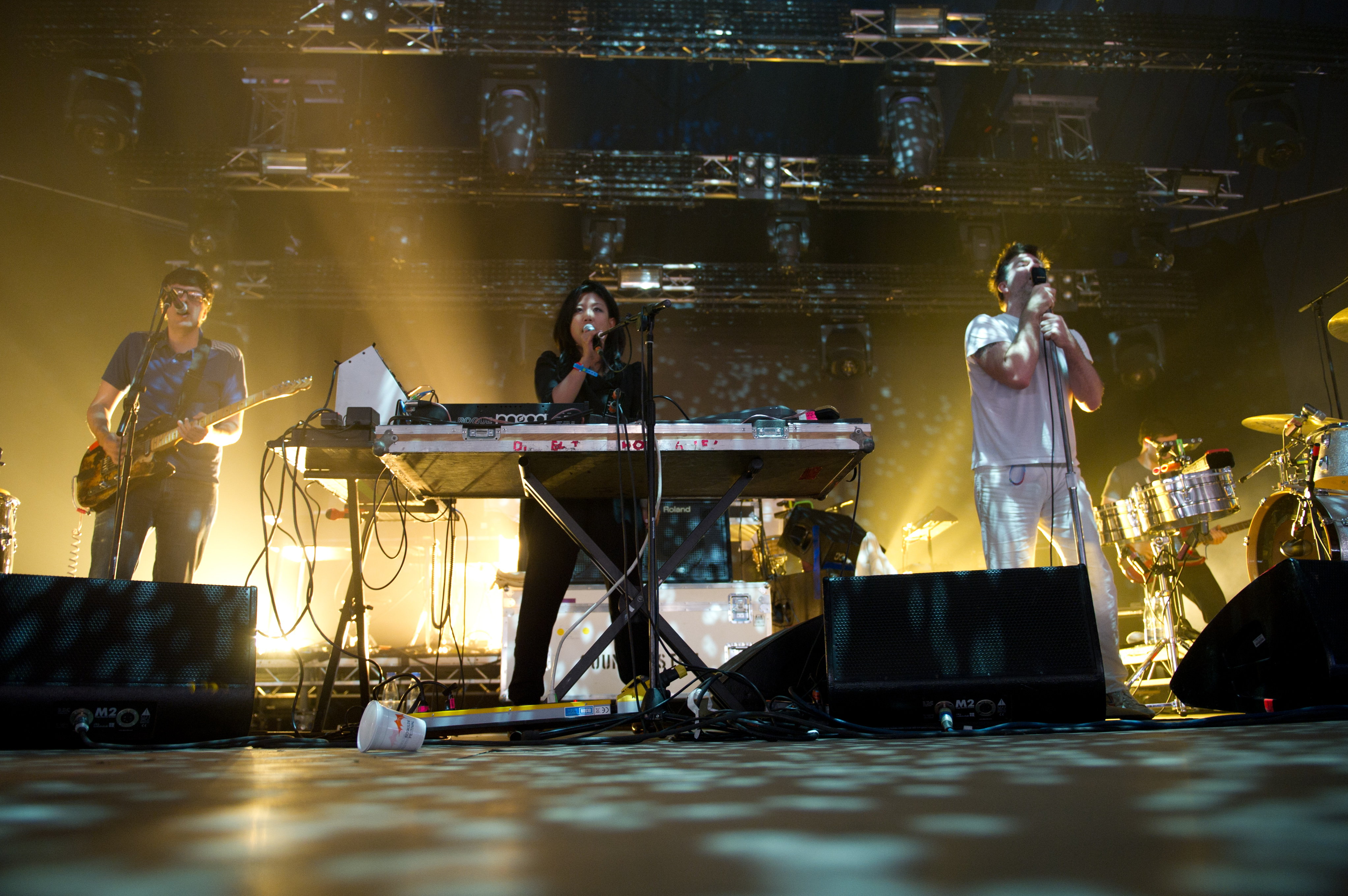 LCD Soundsystem playing on Roskilde Festival 2010.